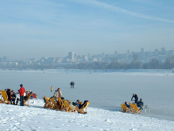 Sava Lake (Савско језеро).